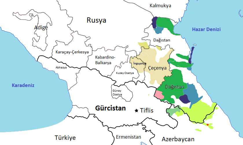 Map of north caucasian languages in Turkish